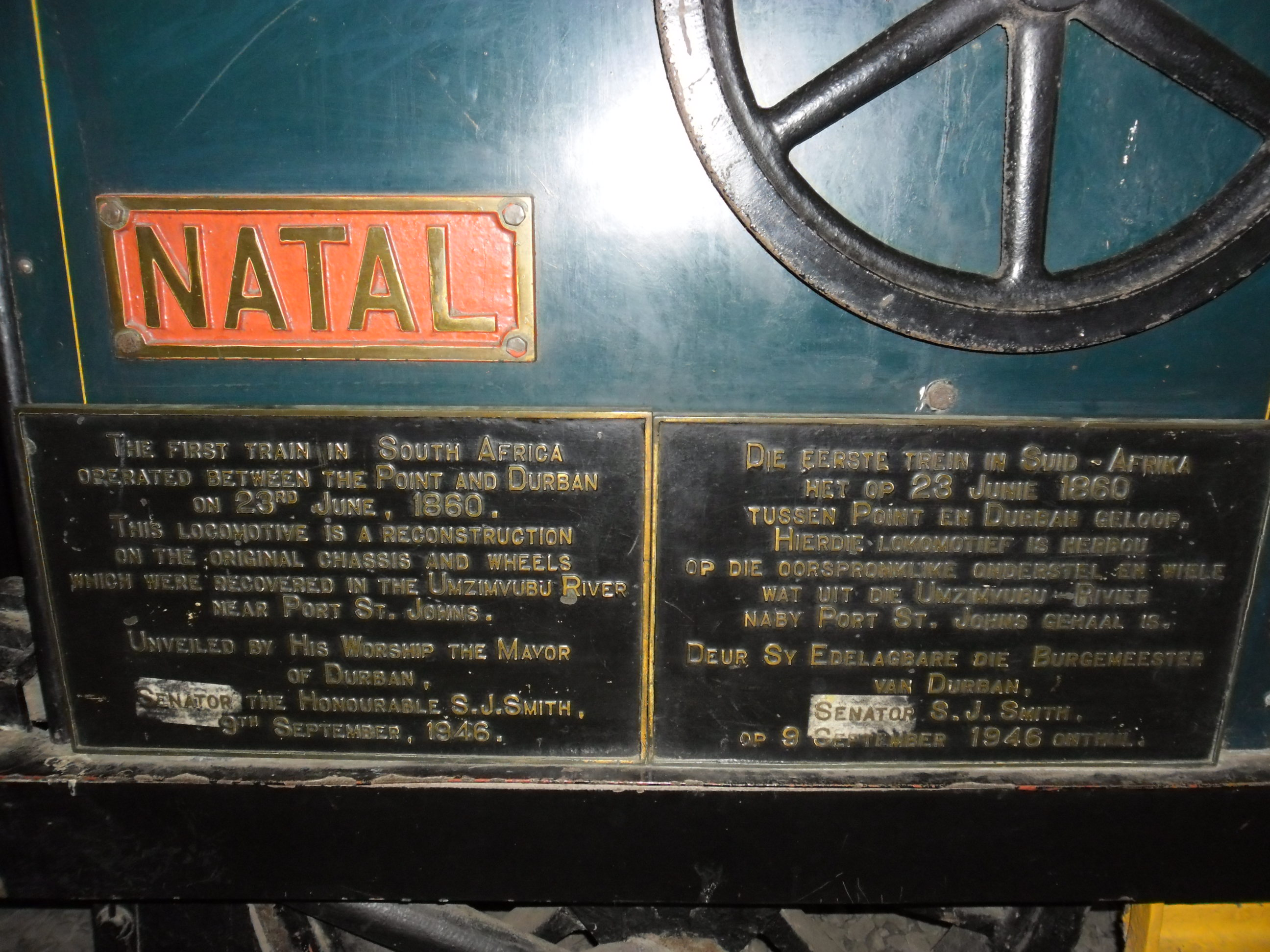 Plaque on Natal Railway Co "Natal" (0-4-0WT)Location: Durban station, Natal